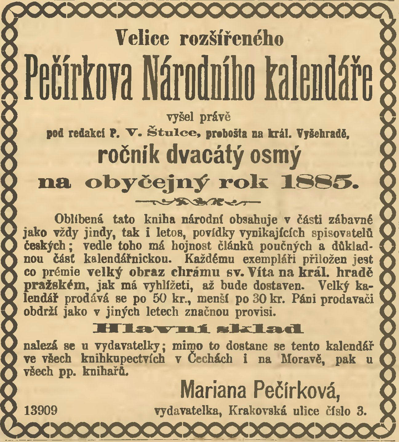 Classified ad, promoting the sale of Pečírkův Národní kalendář (Pečírka's National Calendar) for the year 1885.